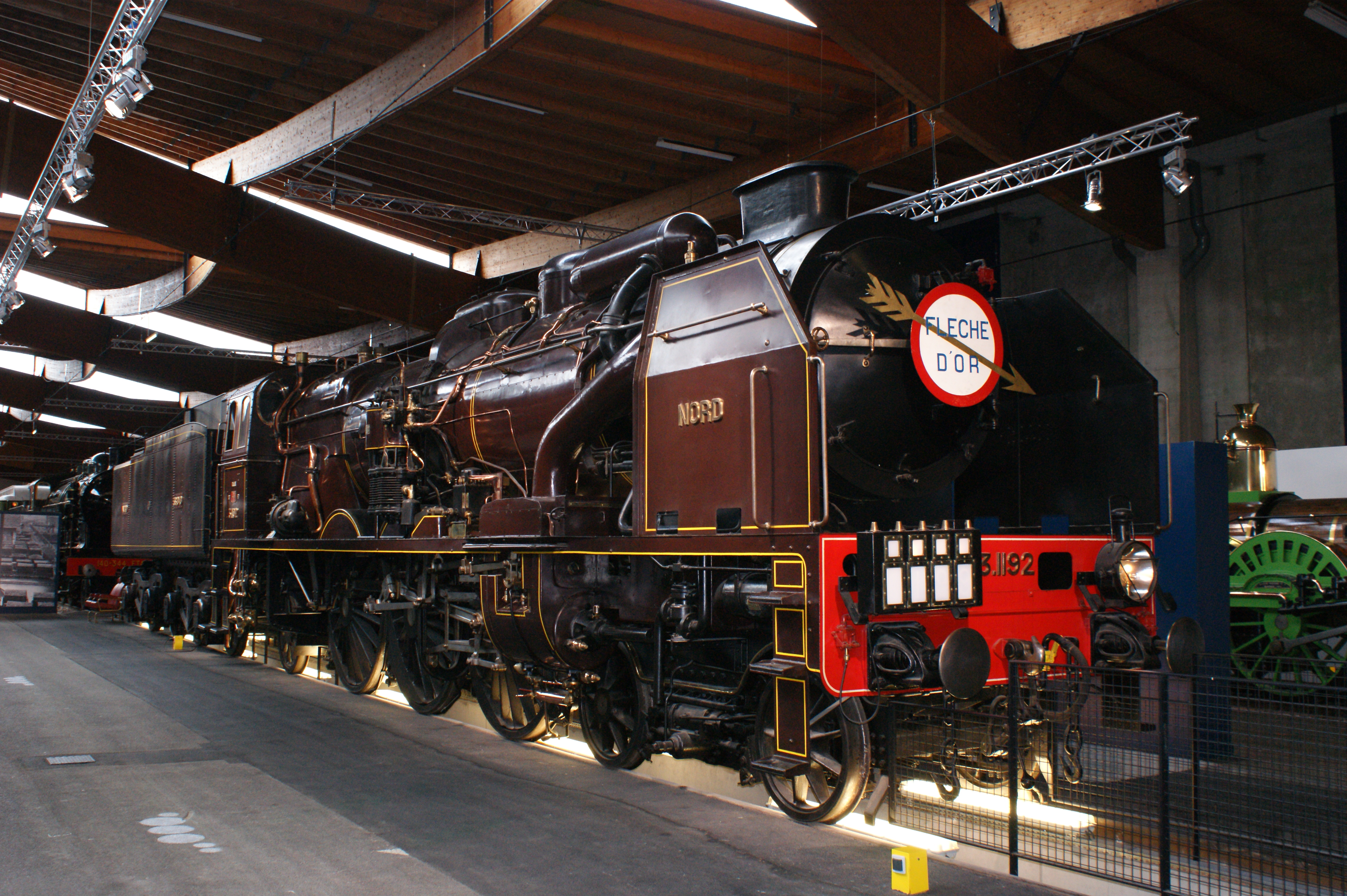 Nord Chapelon 4-6-2 No.3.1192 (Blanc-Misseron 421/1936), became SNCF 231E.22. A newbuild version of Chapelon rebuilds of PO "3500" Pacifics. Probably best French Pacifics built. 3/09.